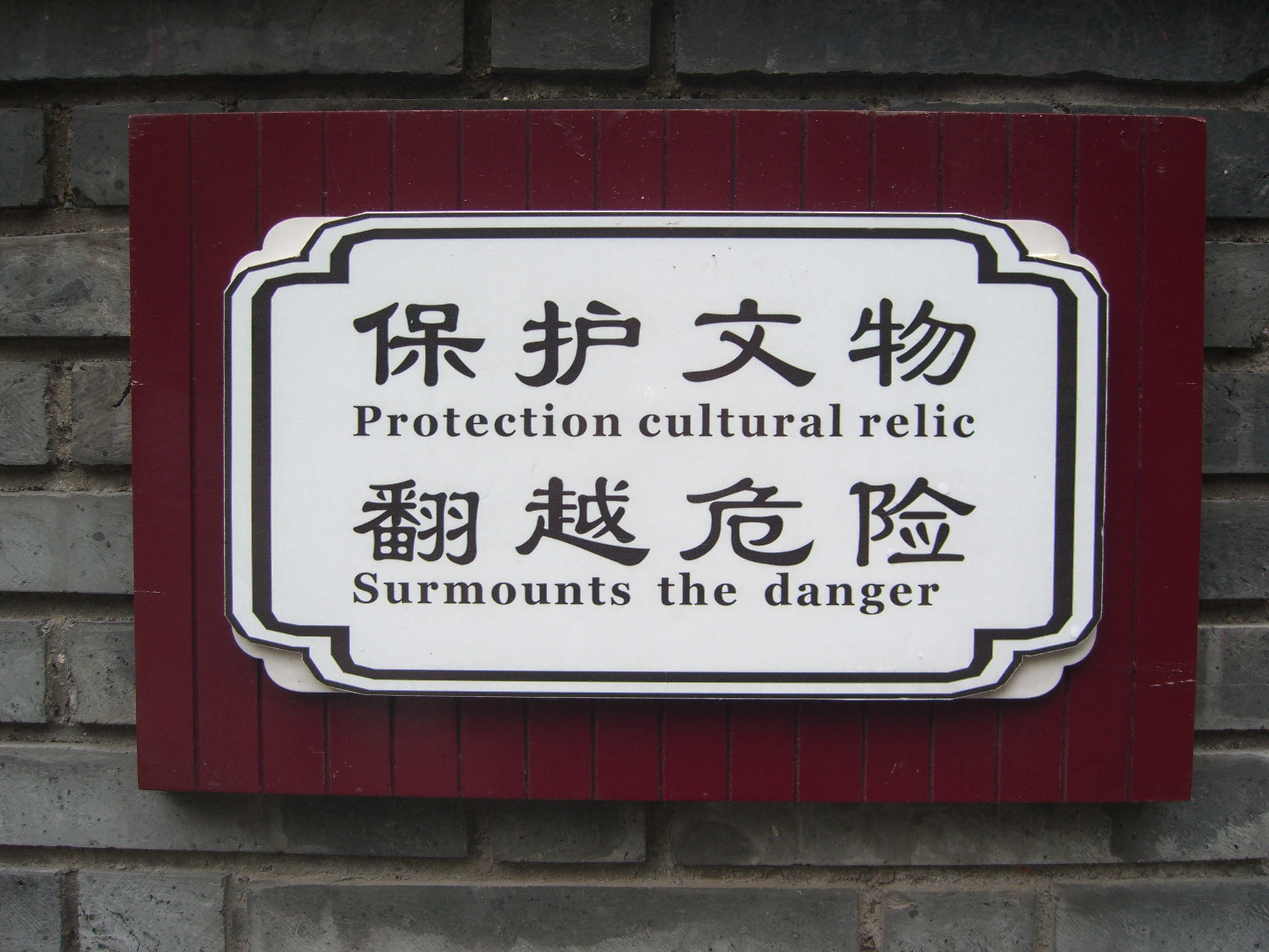 This sign is located on the wall surrounding the Tiger Hill Pagoda.